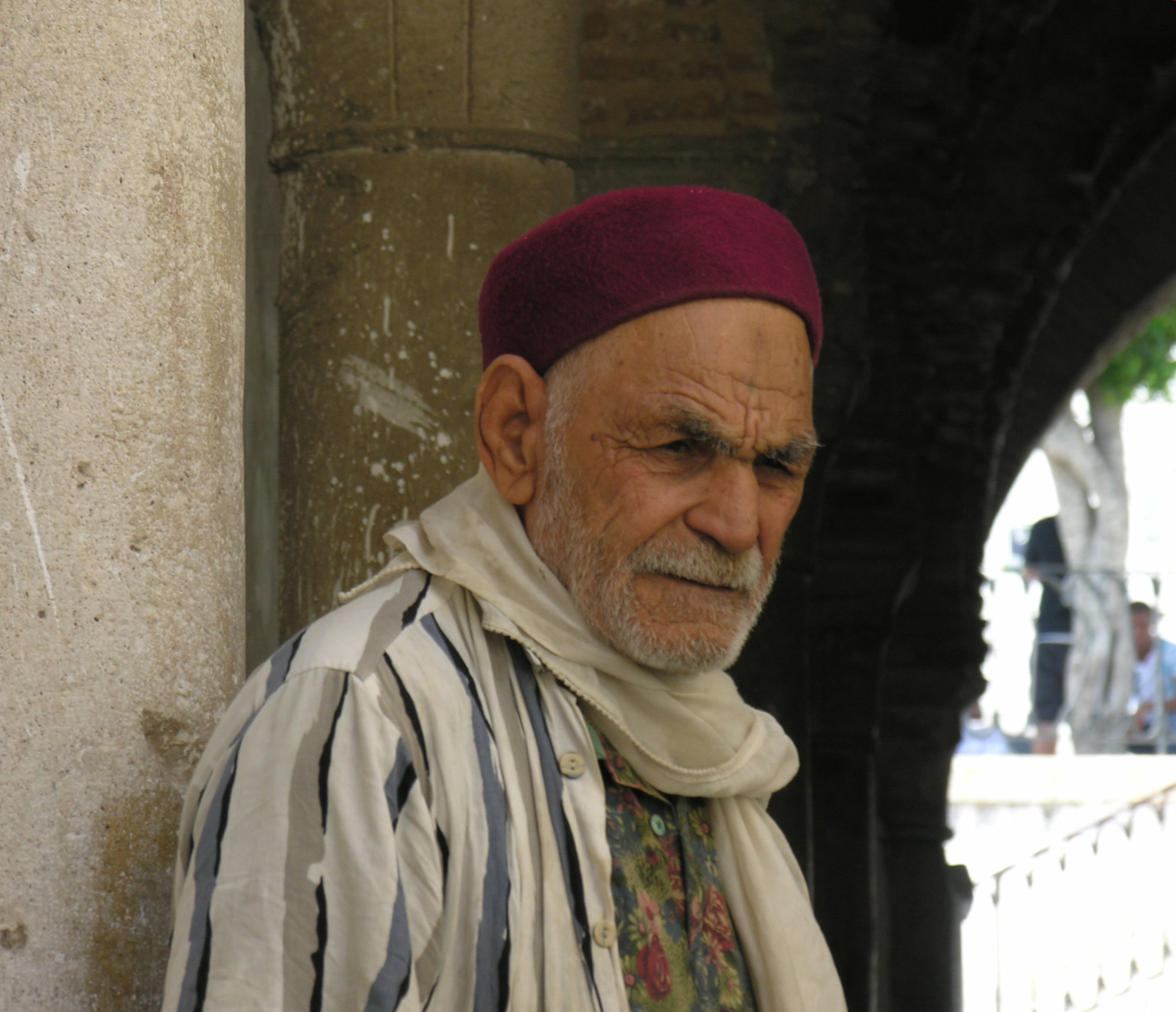 Old man in Tunis